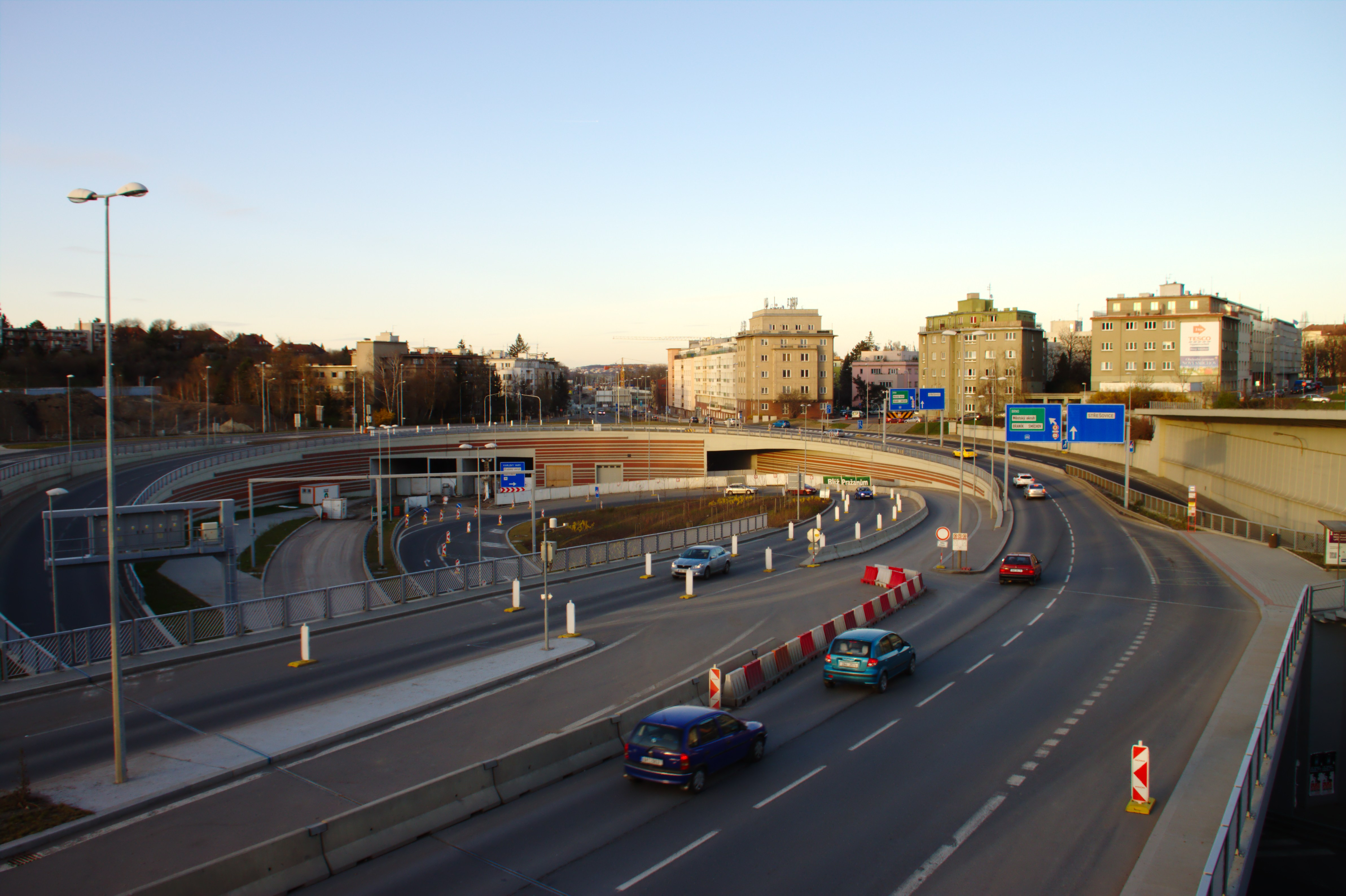 Multilevel crossing Malovanka in Prague-Břevnov, in some of it's late phases of construction (most of the elements of the structure are already finished) in April 2012